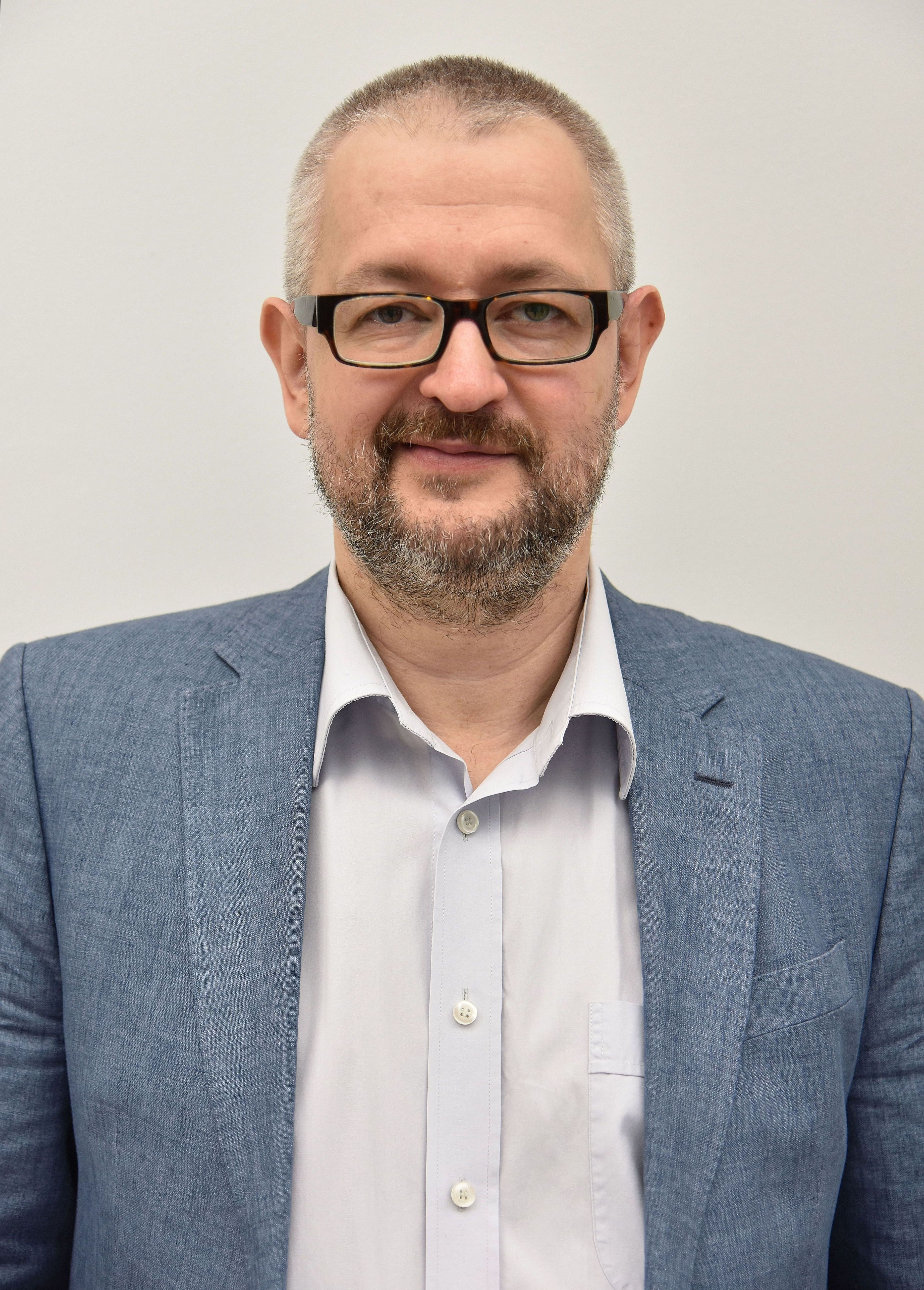 Rafał Ziemkiewicz in the Sejm